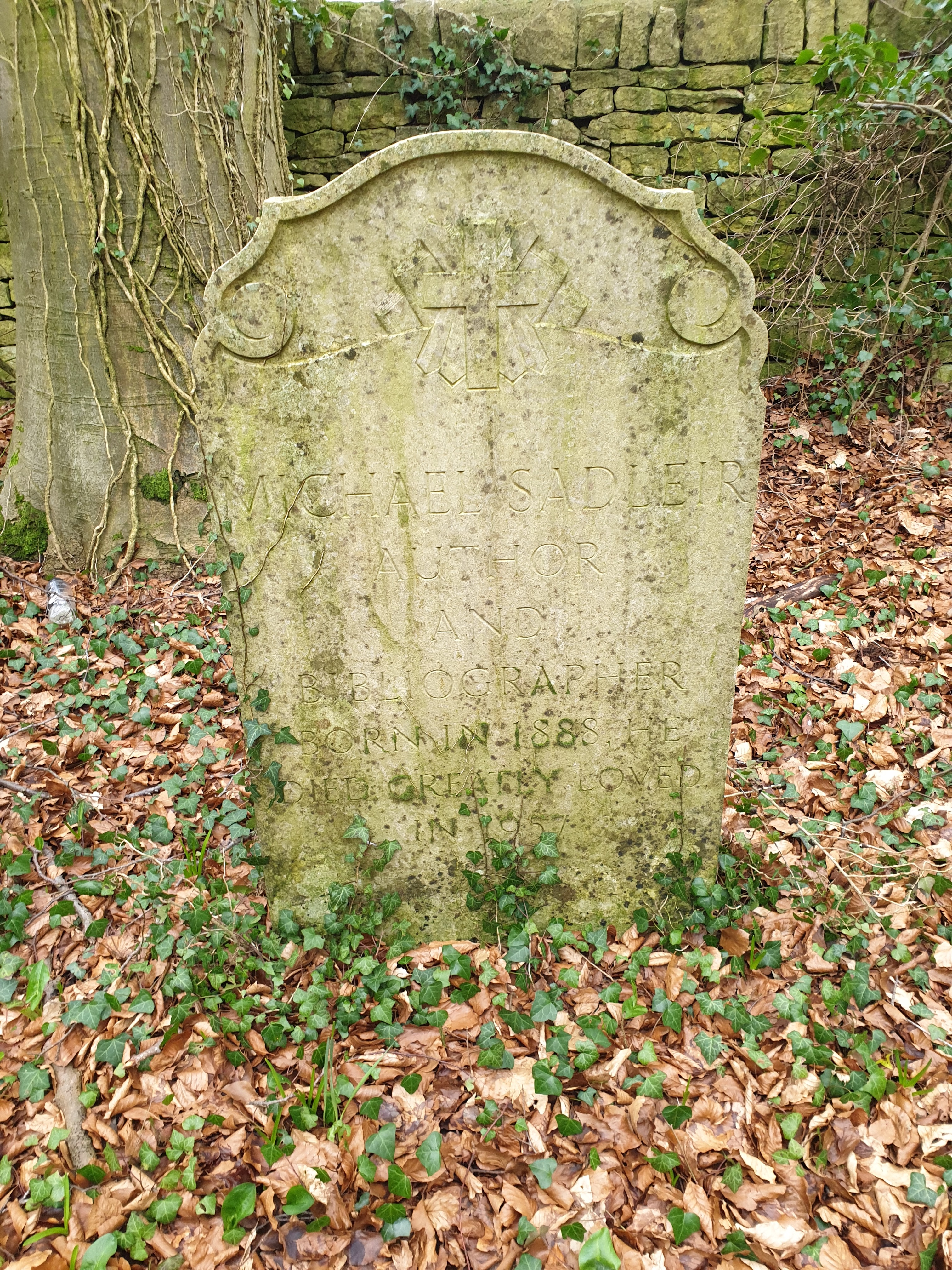 Michael Sadleir's grave and memorial at Bisley Burial Ground, Bisley, Gloucestershire, England. He is interred next to his eldest son, Lieutenant Michael Thomas Carey “Tommy” Sadler. Inscription: "MICHAEL SADLEIR /AUTHOR /AND /BIBLIOGRAPHER /BORN IN 1888, HE /DIED GREATLY LOVED /IN 1957".